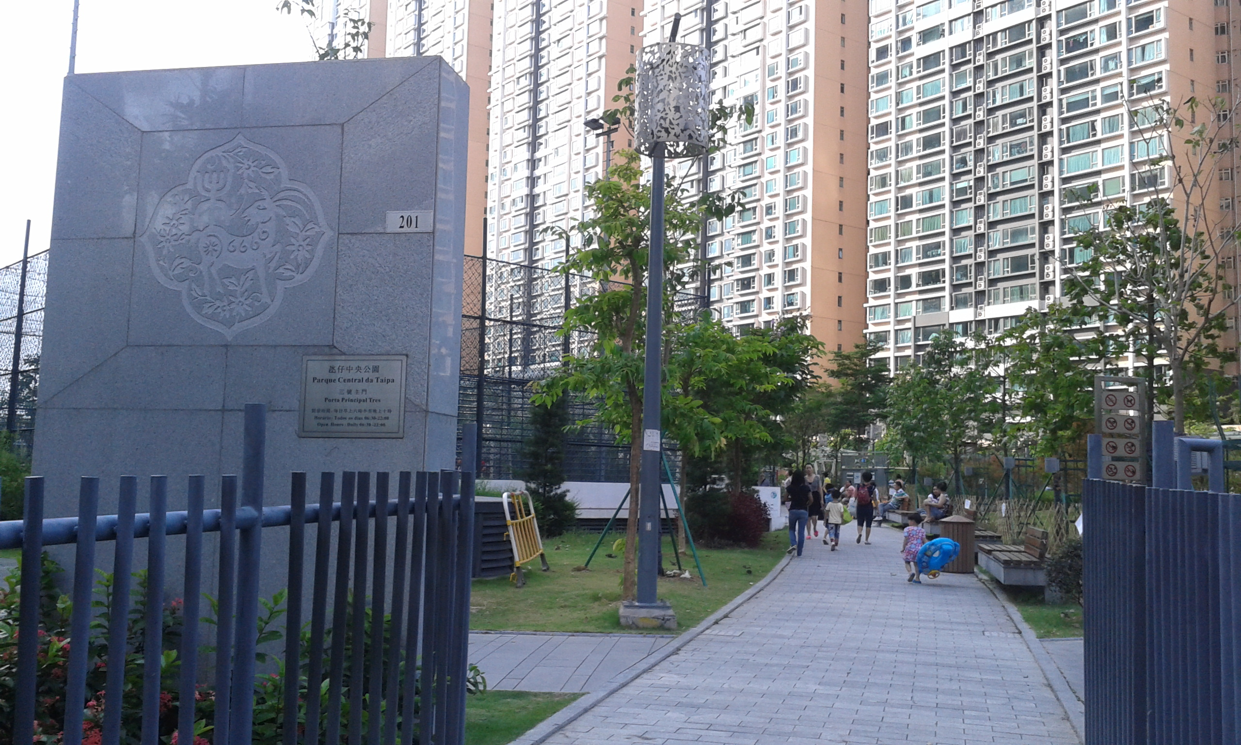 The No.3 Gate of Taipa Central Park